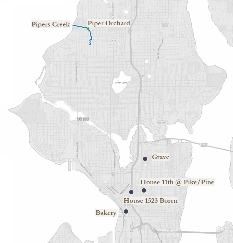 Map of A. W. Piper's Seattle locations, including Piper's Creek, Piper Orchard, his homes on 11th between Pike and Pine, on 1523 Boren, his bakery on Front St (now 1st Ave) between Cherry and James, and his grave in Lake View Cemetery. Created with Tableau. Underlying map data from Tableau via OpenStreetMap using Open Data Commons Open Database License (ODbL). See About Tableau Maps.